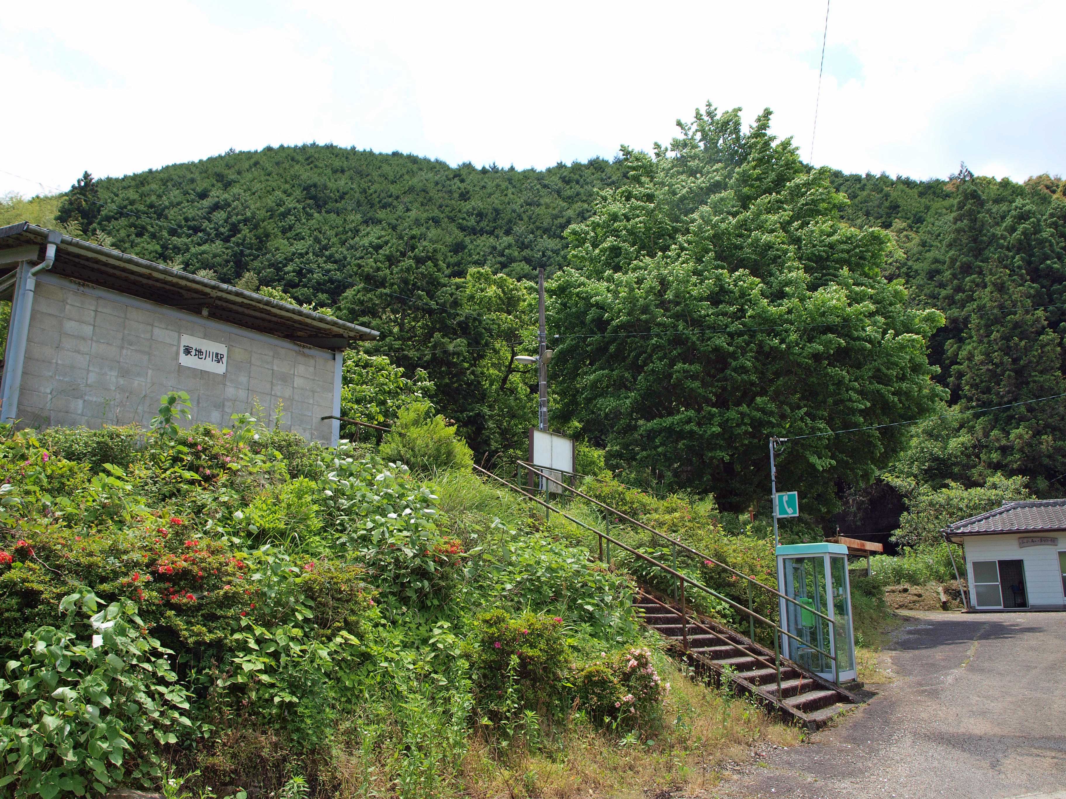 Iejigawa station, Yodo-line, JR Shikoku, Japan